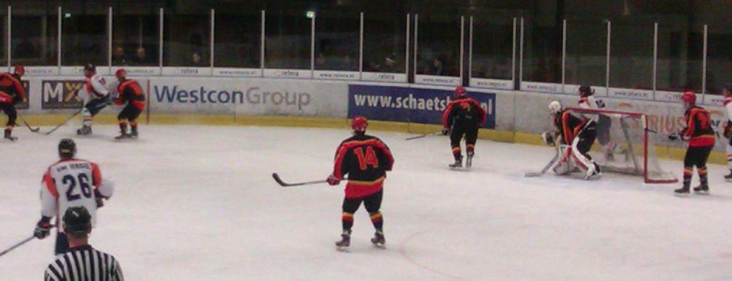 Icehockey Holland-Belgium Eindhoven